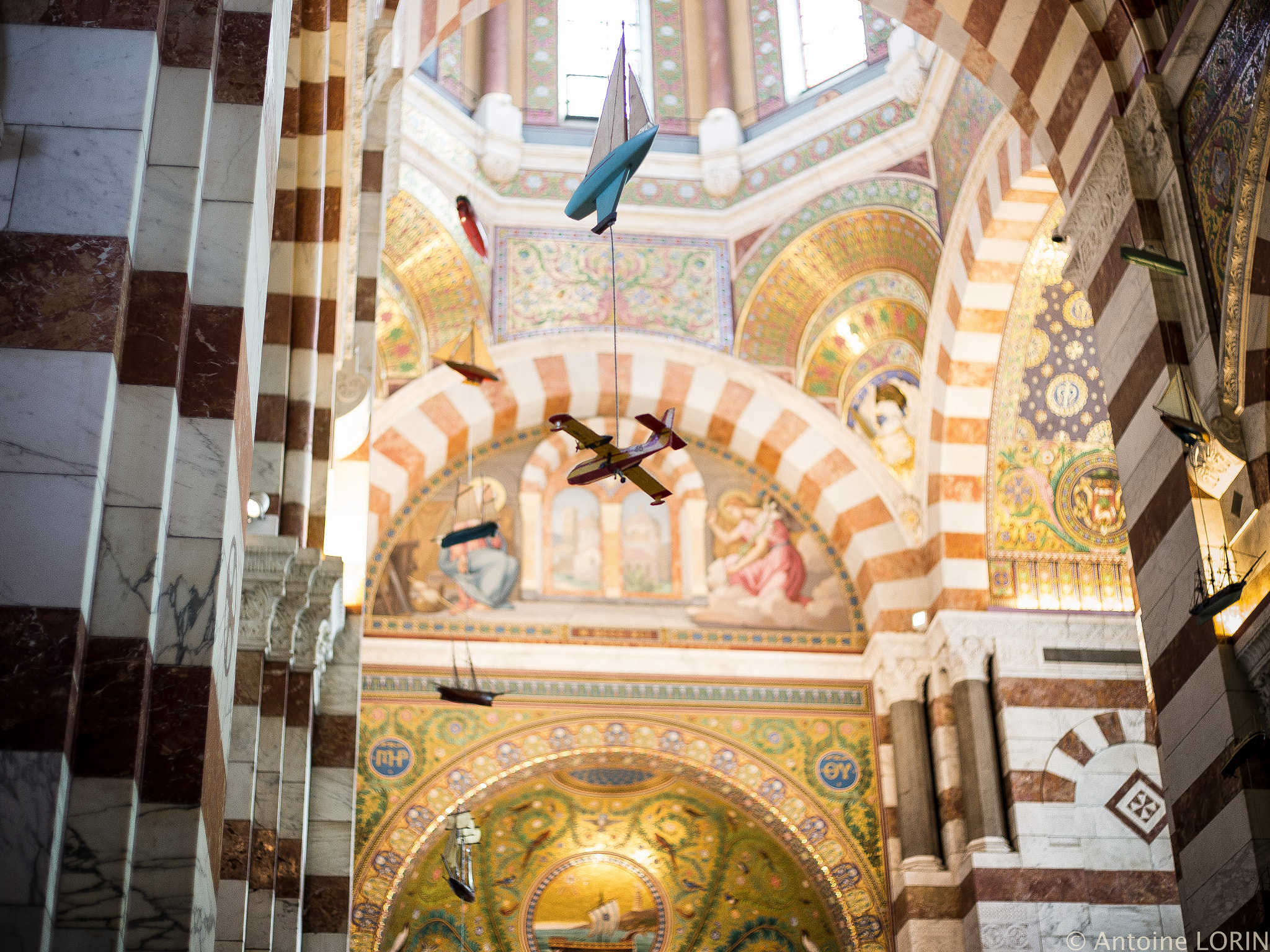 500px provided description: Bonne Mère Marseille [#sky ,#city ,#sea ,#sunset ,#street ,#water ,#boat ,#river ,#beach ,#travel ,#church ,#blue ,#night ,#sun ,#light ,#clouds ,#europe ,#italy ,#ocean ,#urban ,#architecture ,#summer ,#building ,#beautiful ,#uk ,#england ,#paris ,#france ,#cathedral ,#?le-de-France]